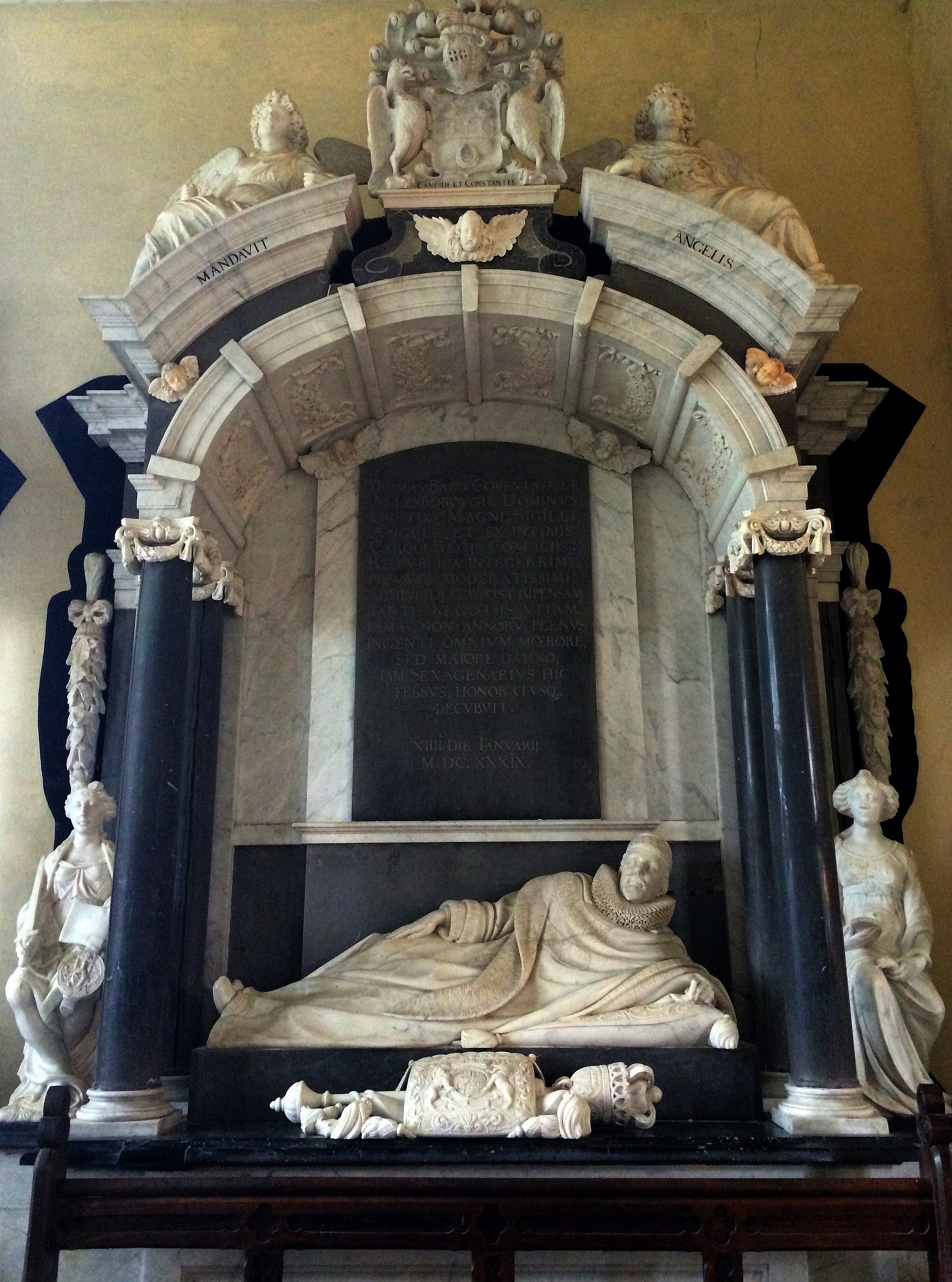 St Mary Magdalene, Croome, Worcs: Monument to Thomas Coventry, 1st Baron Coventry (1578–1640)